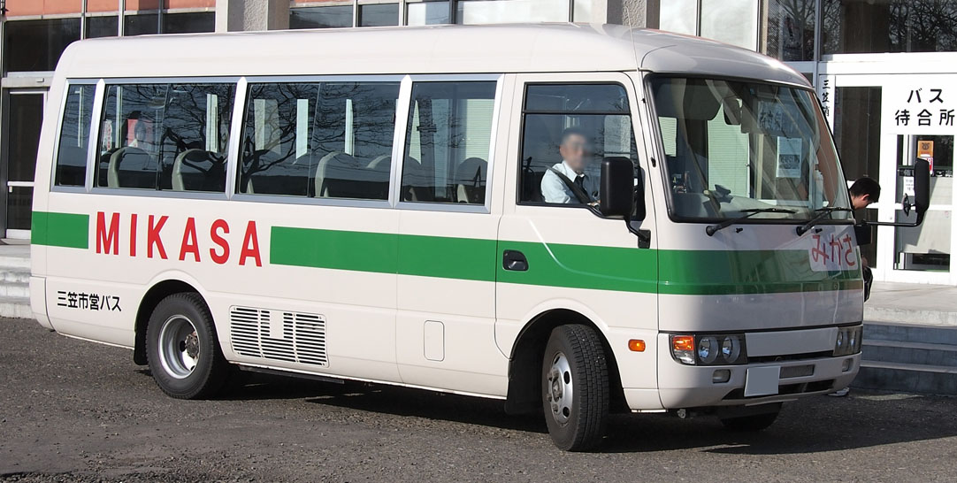 Mikasa city bus, Mikasa, Hokkaido, Japan